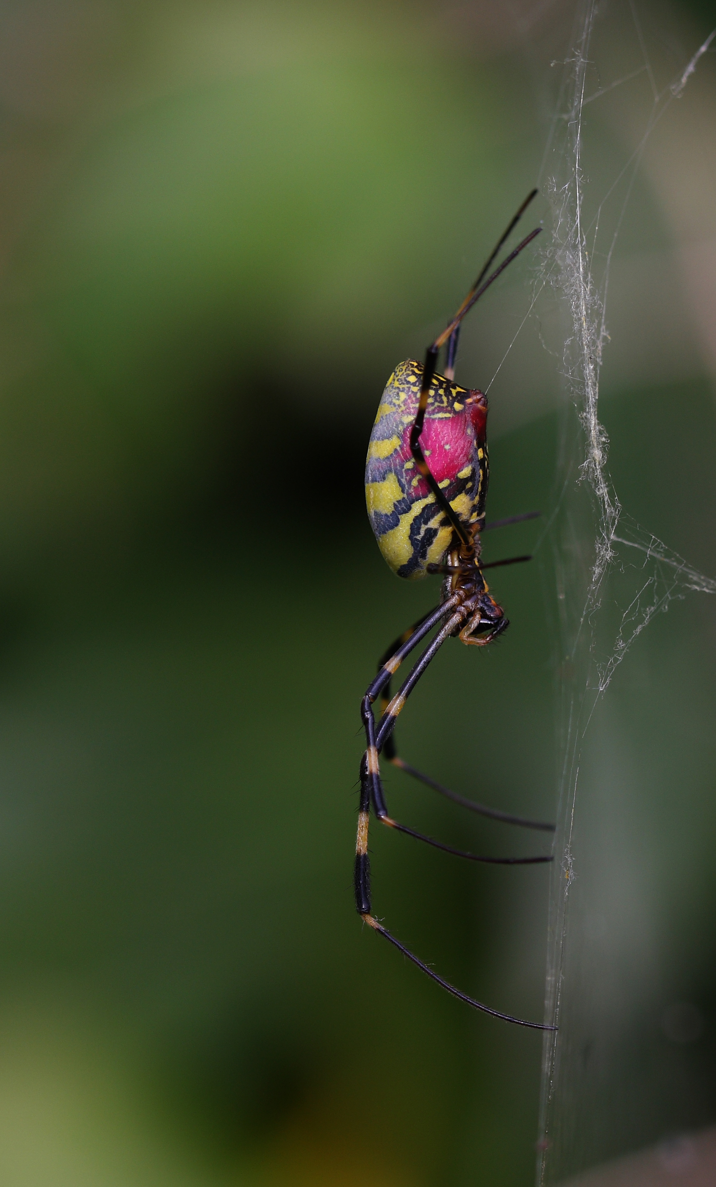 Spider Nephila clavata (Female).